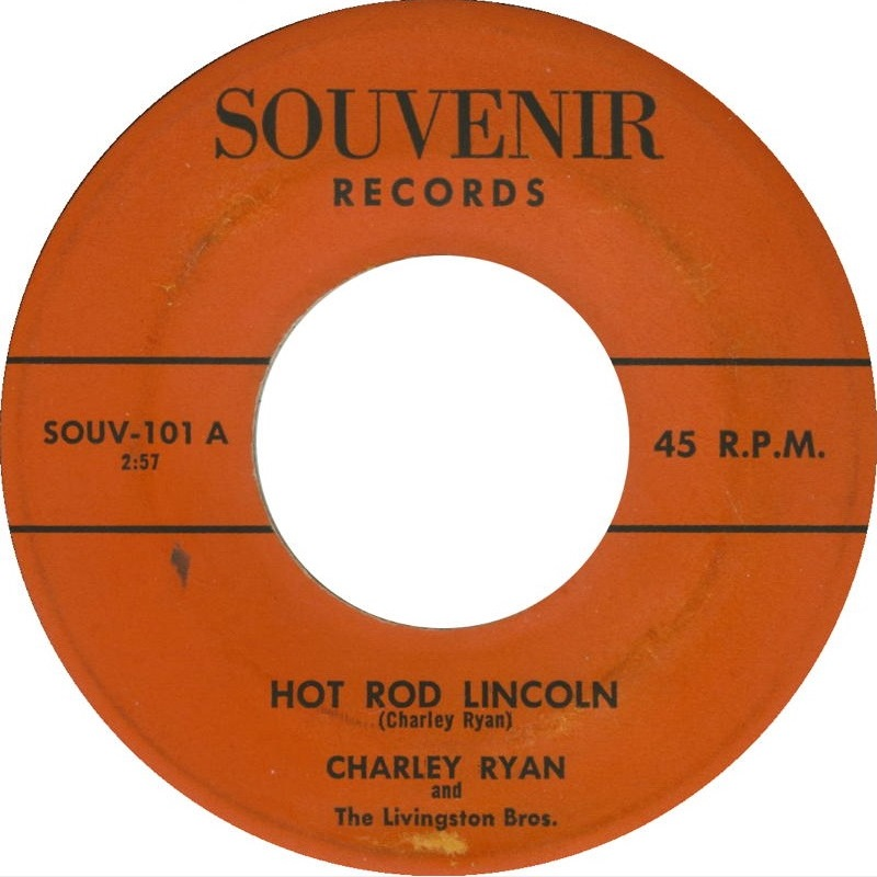 Label of the 7-inch 45 rpm single for "Hot Rod Lincoln" (1955) by Charley Ryan and the Livingston Bros., published by Souvenir Records.